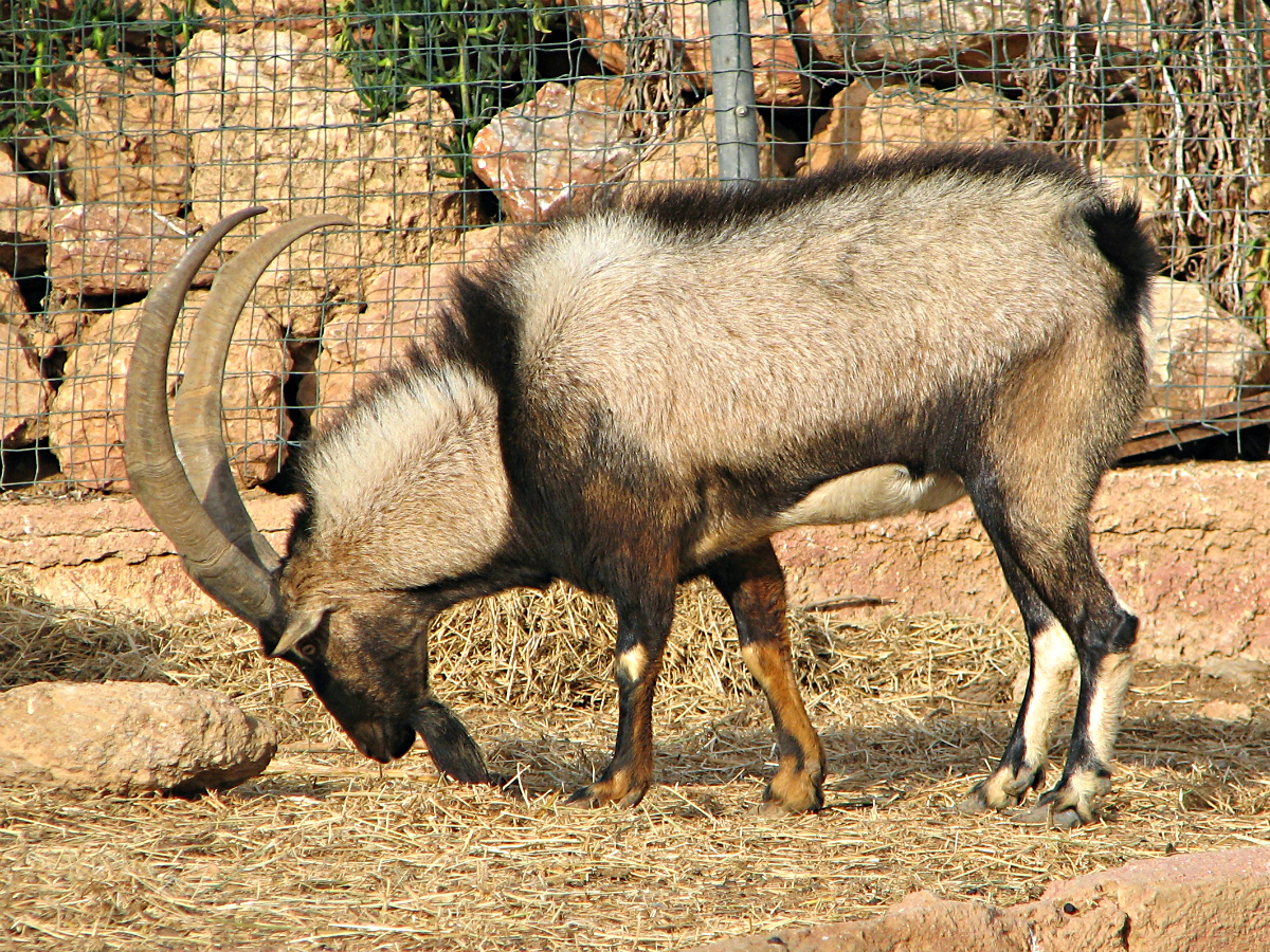 Male Cretan ibex in captivity.